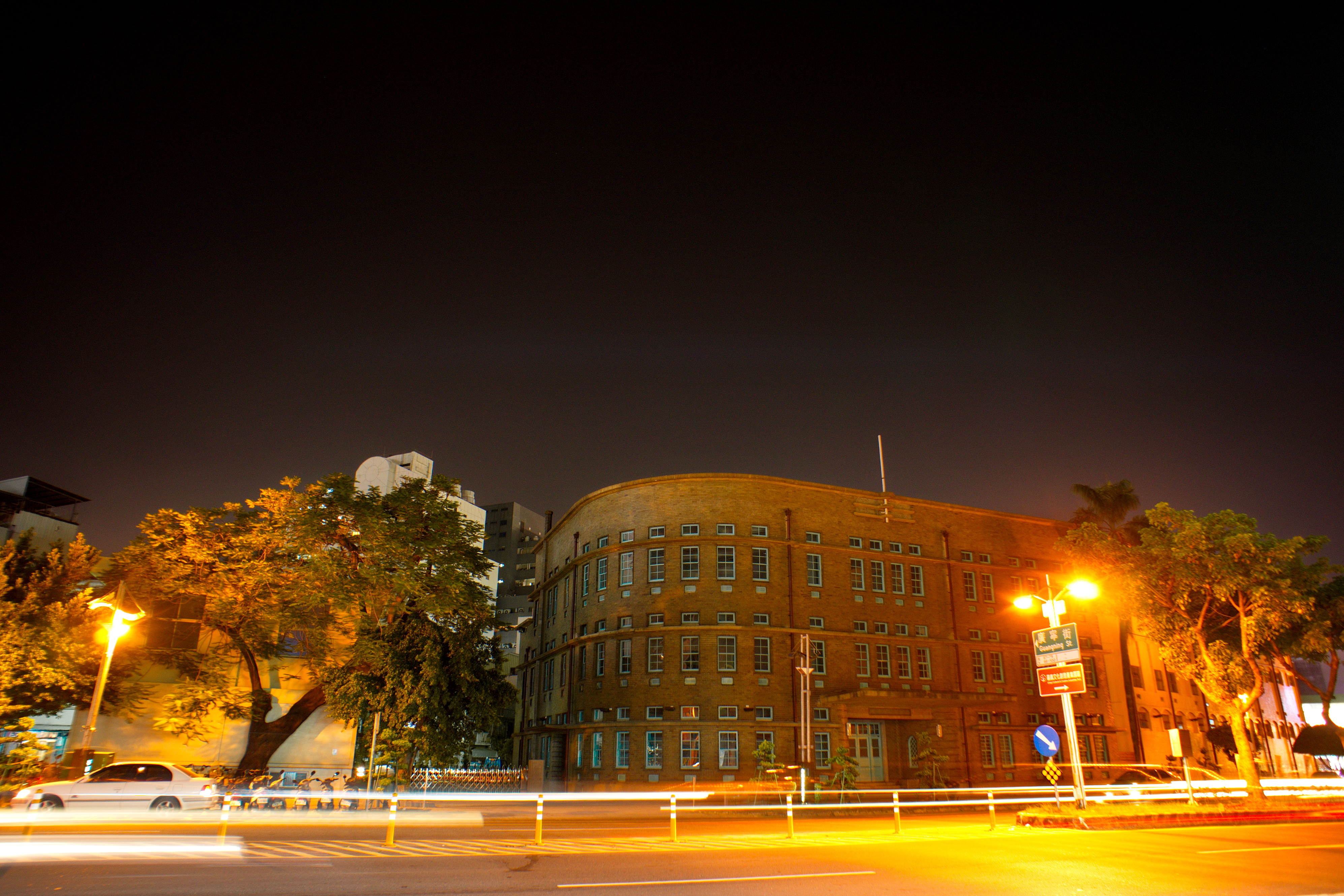 Taiwan Tobacco and Liquor Corporation, Chiayi Branch, Chiayi City, Taiwan.